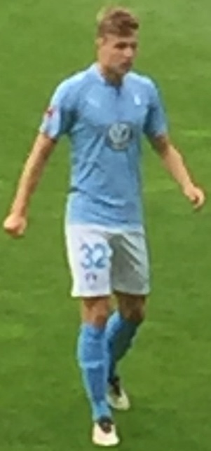 Mattias Svanberg playing for Malmö FF in a friendly vs. AGF. July 4th 2016